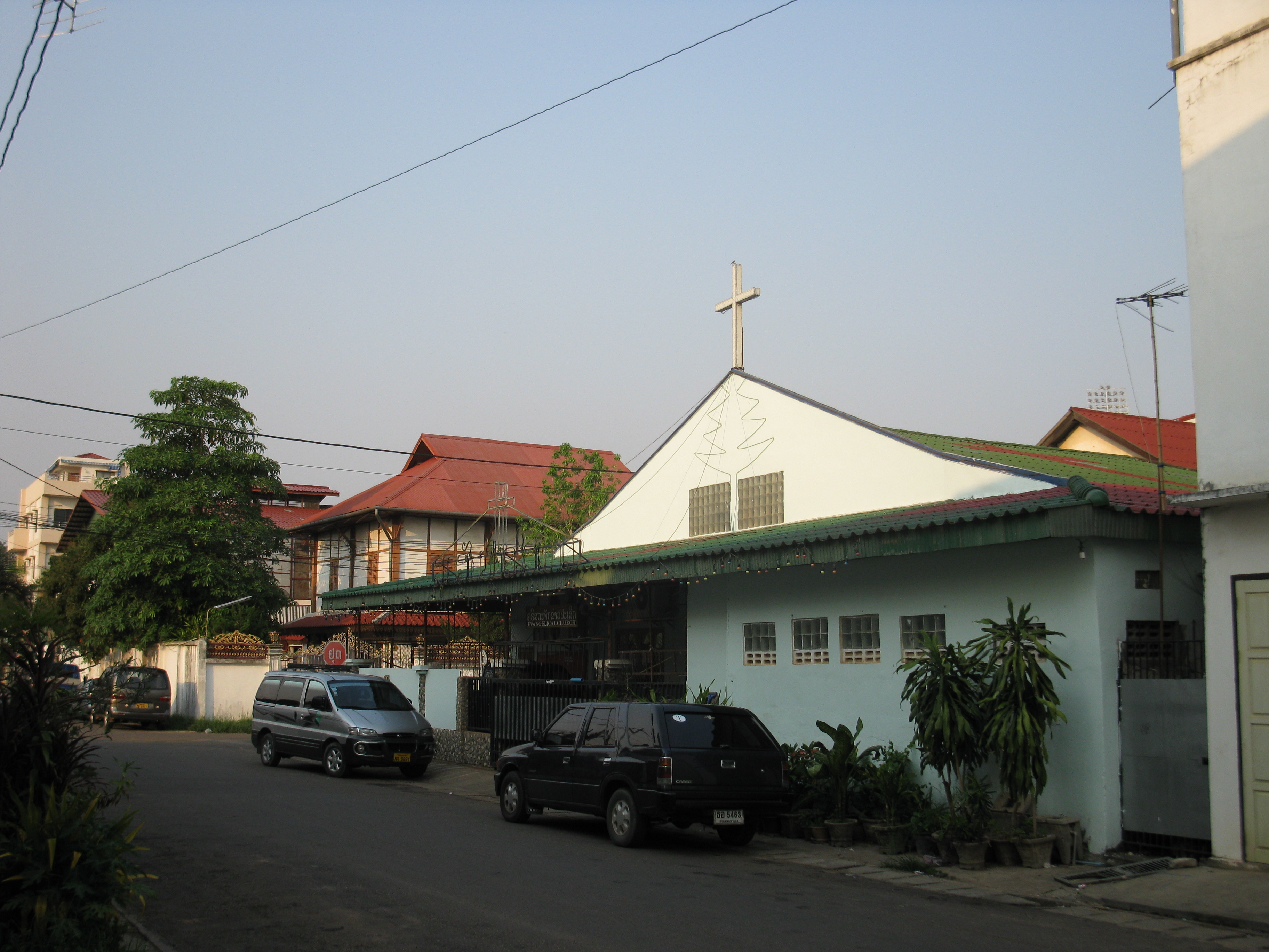 Lao Evangelical Church, Rue de Haiphong, Vientiane, Laos.